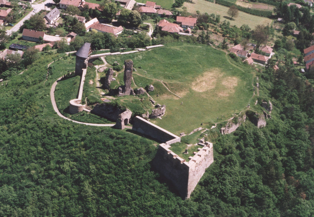 Castle - Nógrád - Hungary - Europe